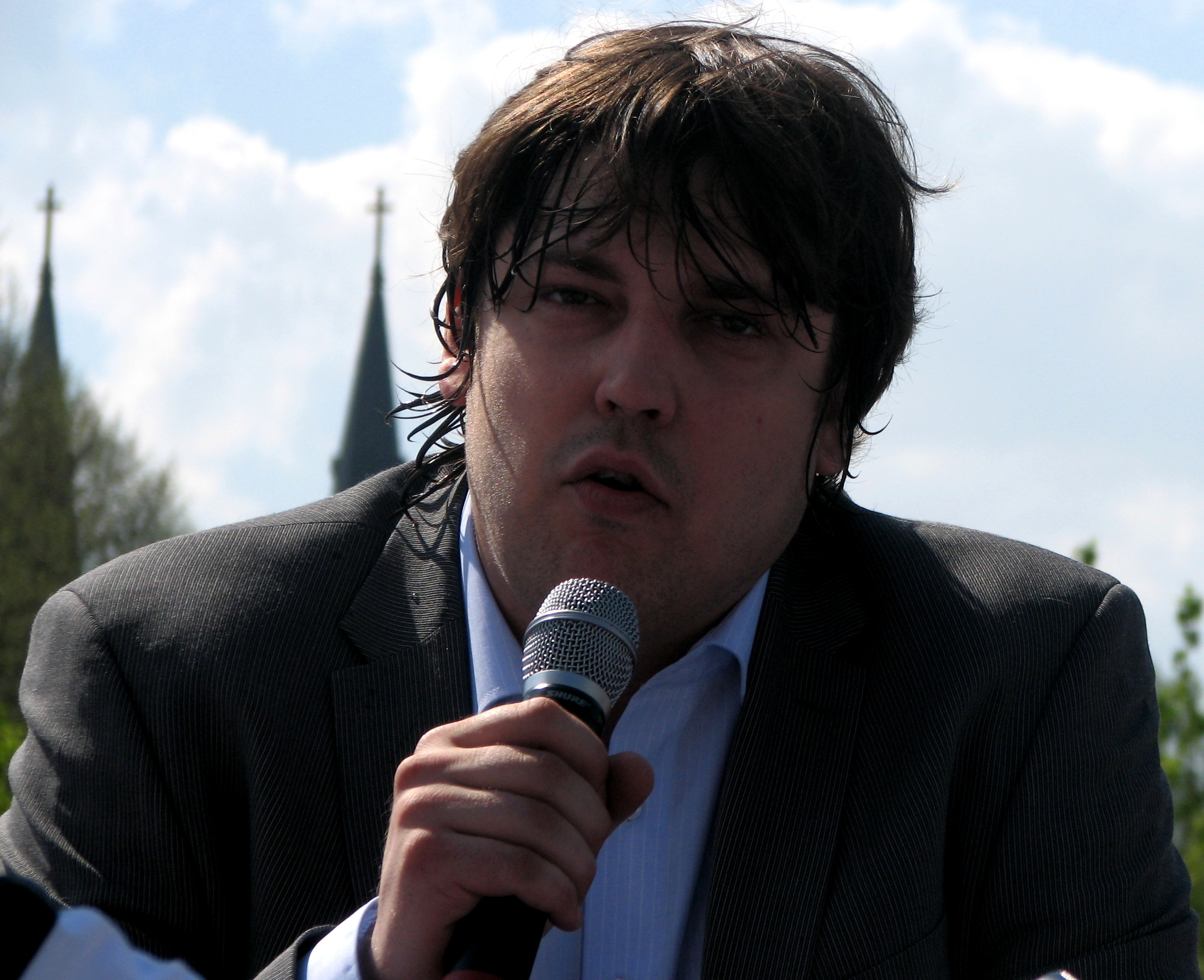 Vahur Keller performing in Tallinn Freedom square during Tallinn's day